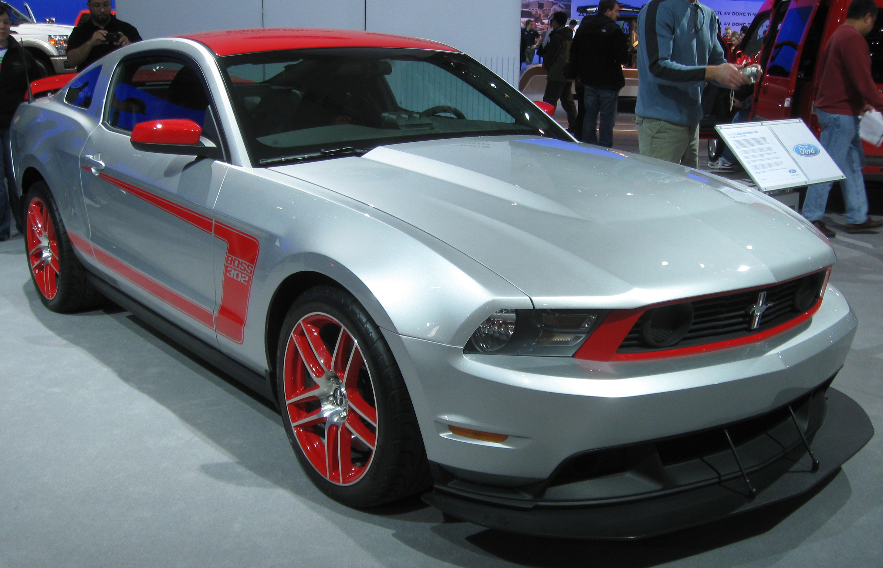 2012 Ford Mustang photographed at the 2011 Washington (D.C.) Auto Show.